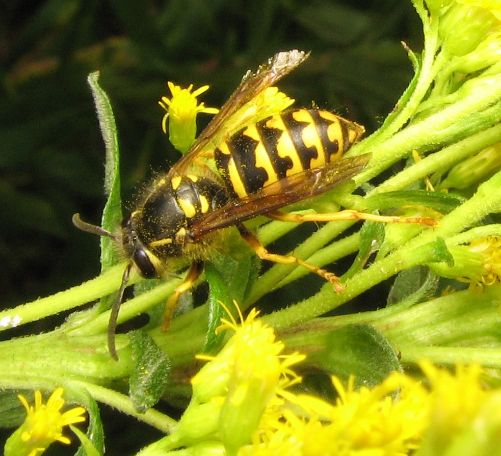 Common aerial yellowjacket, Dolichovespula arenaria on goldenrod. Watson Homestead Painted Post, Steuben County, New York, USA.